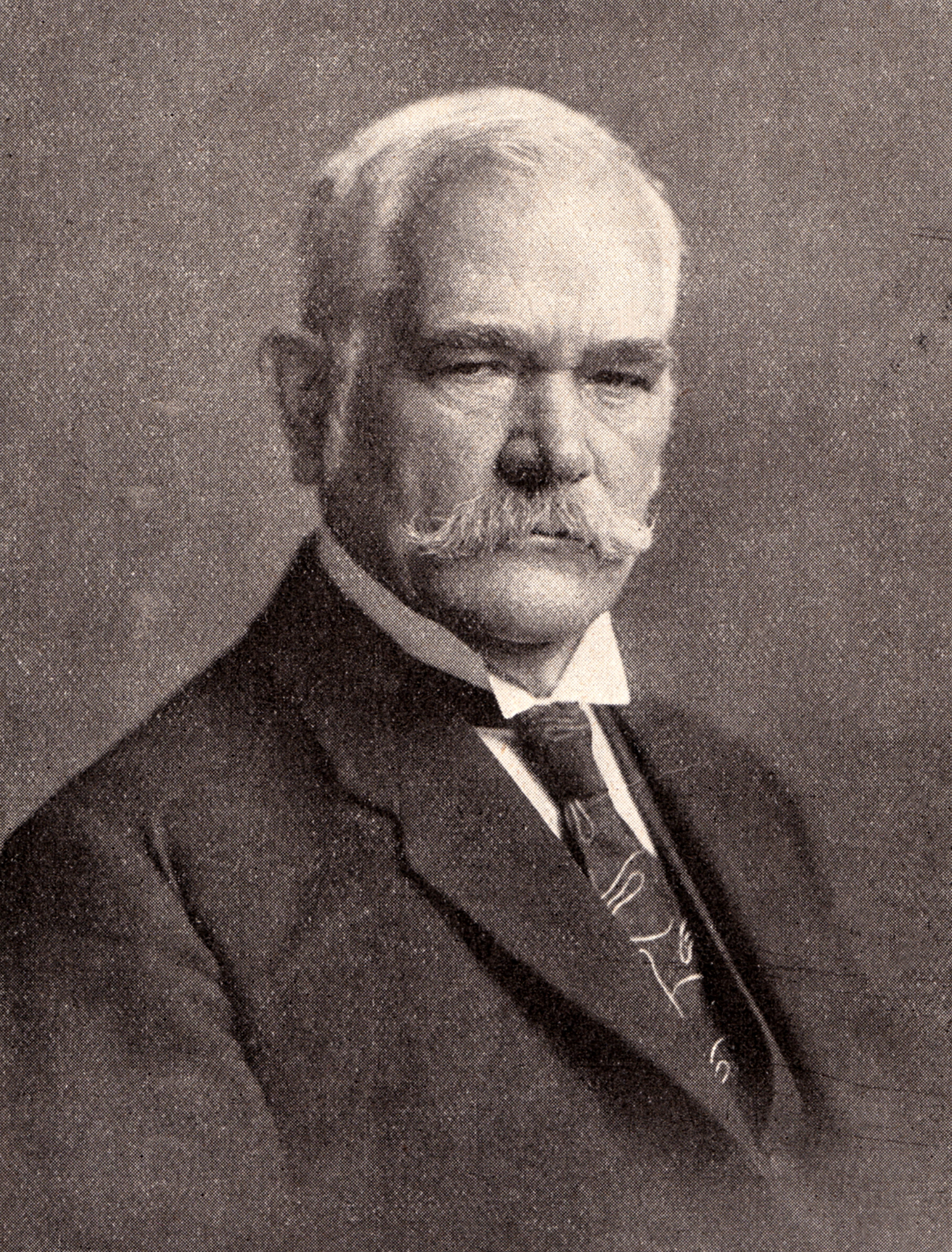 Antonín Klír (1864-1939) was a czech civil engineer.